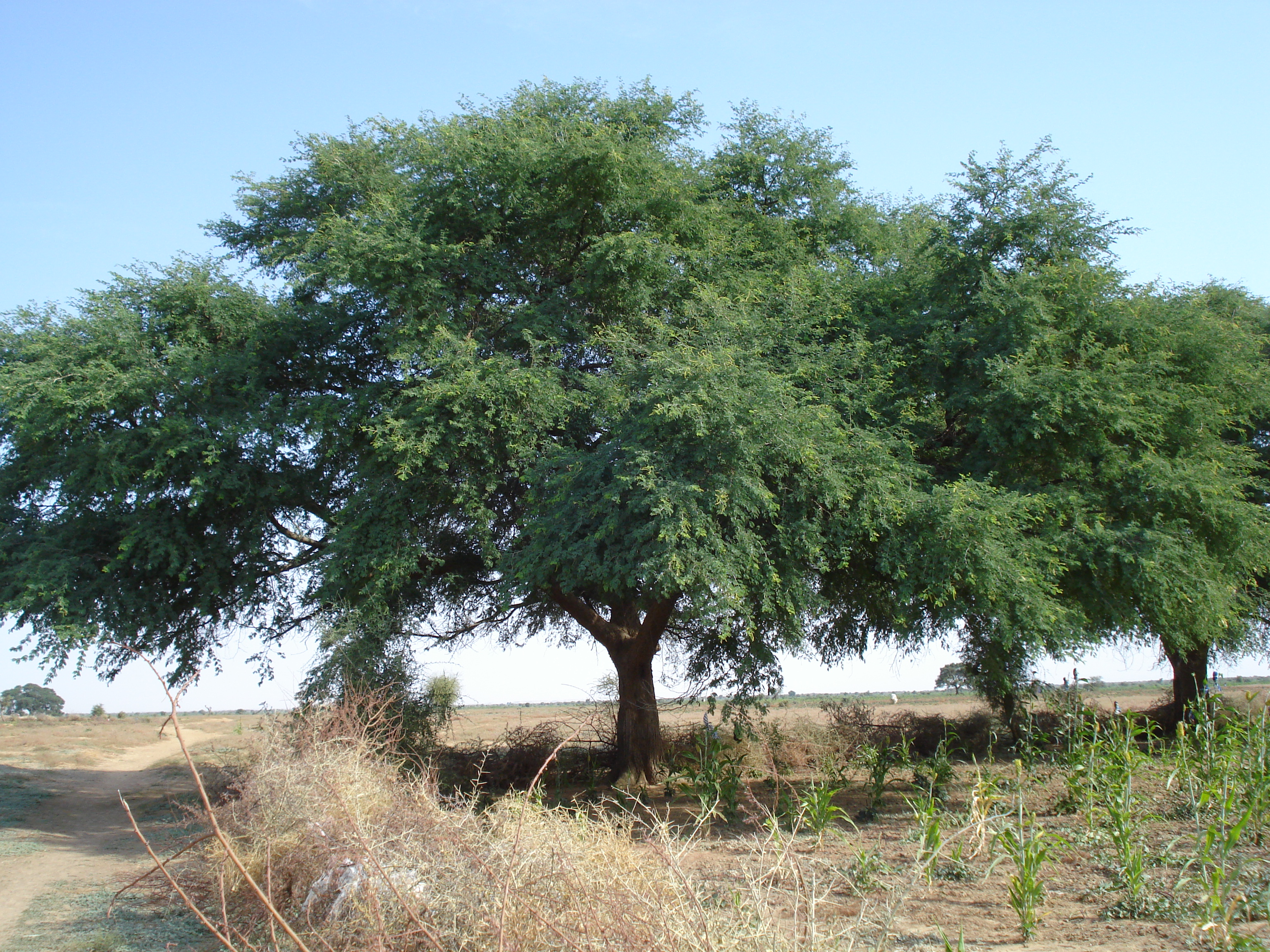 text